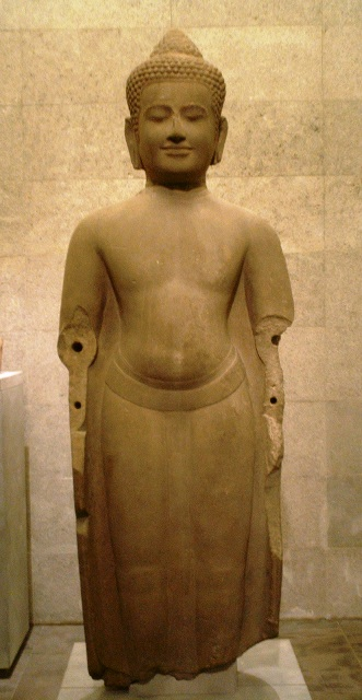 Buddha from Preah Khan (Angkor), style post-bayon, 1250-1400, Musee Guimet, Paris. Personal photograph, 2004.